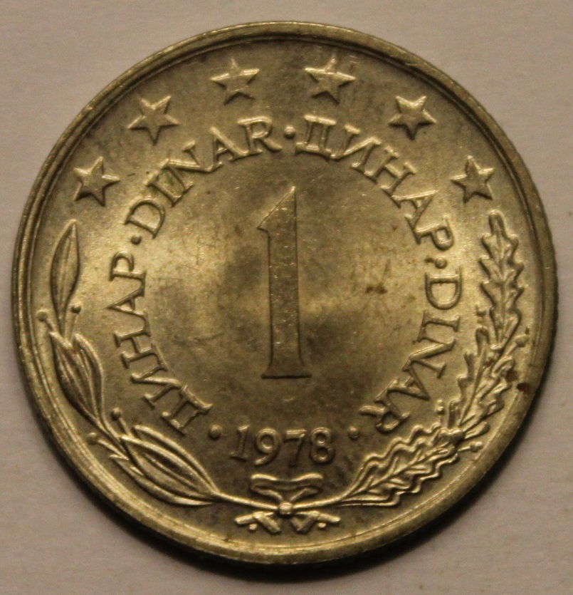 This is the front face of a 1 Yugoslav dinar coin minted in 1978.